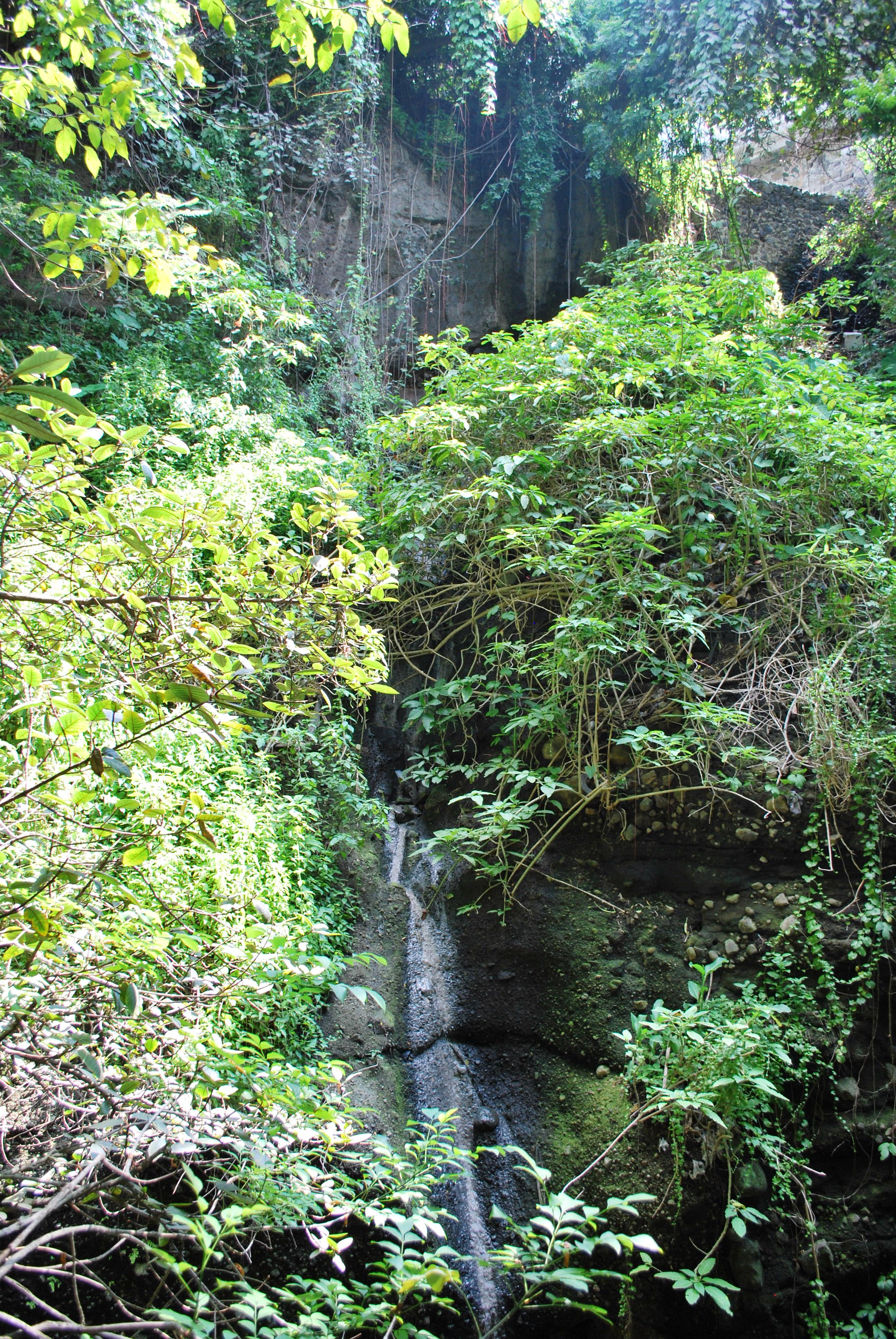 This is the actual "salto" (waterfall) of San Anton in Cuernavaca, Morelos Mexico. Unfortunately, not much water was running on this day.